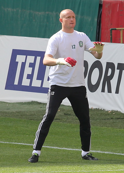 Aleksei Poliakov